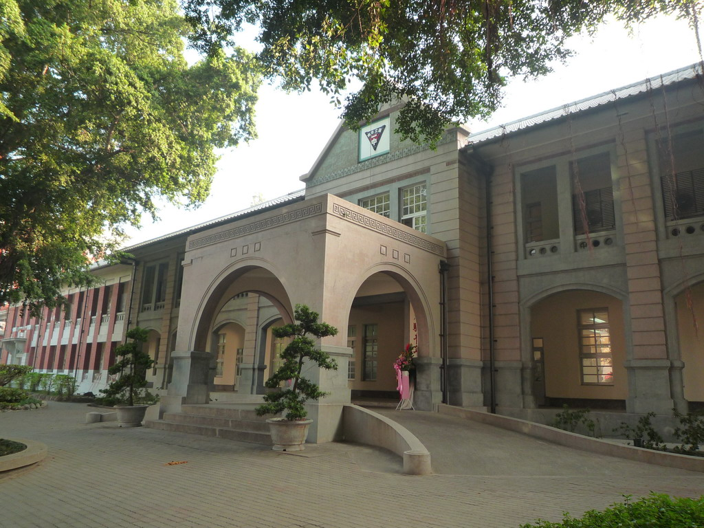 National Tainan First Senior High School's entrance.(In front of Mintzu Rd.)